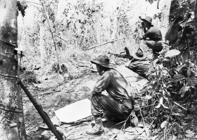 An Australian 2/43rd Battalion Bren Gun position on Labuan Island to the north of the airfield during the fighting on the island in June 1945